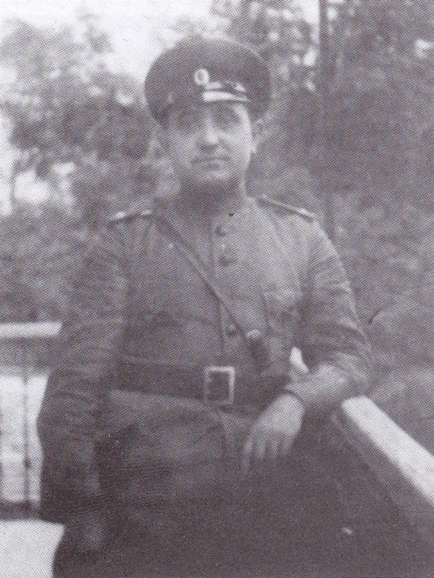 Andon Kalchev 1941-1944